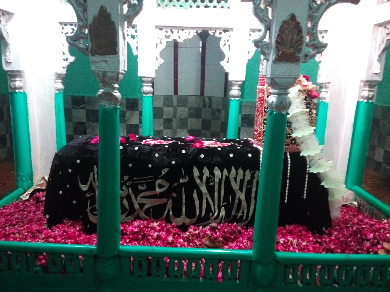 Side view of the grave of Sultan ul Tarikeen Hazrat Sakhi Sultan Syed Mohammad Abdullah Shah Madni Jilani